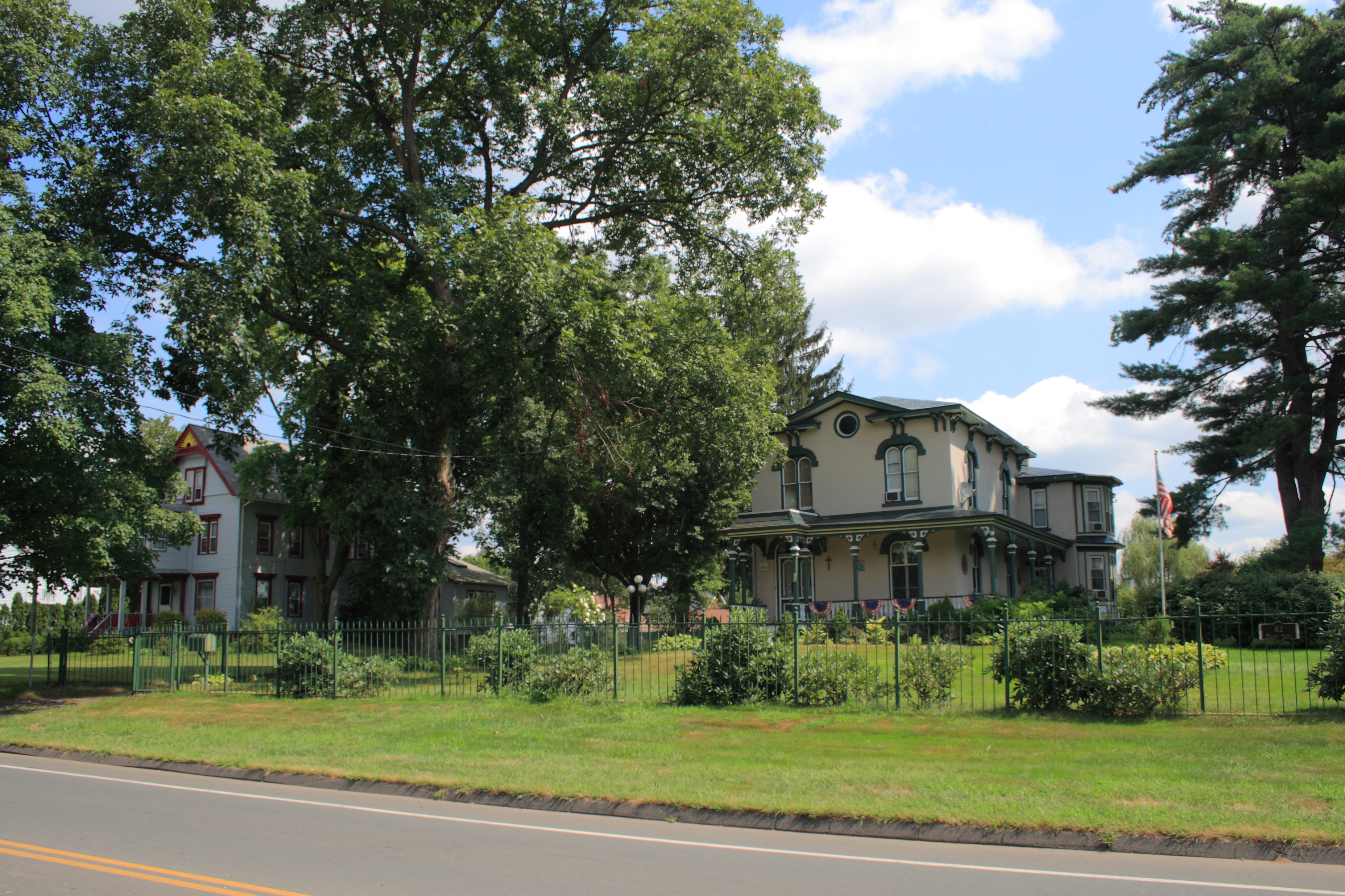 A section of the Newington Junction North Historic District, a Registered Historic Place in Newington, Connecticut